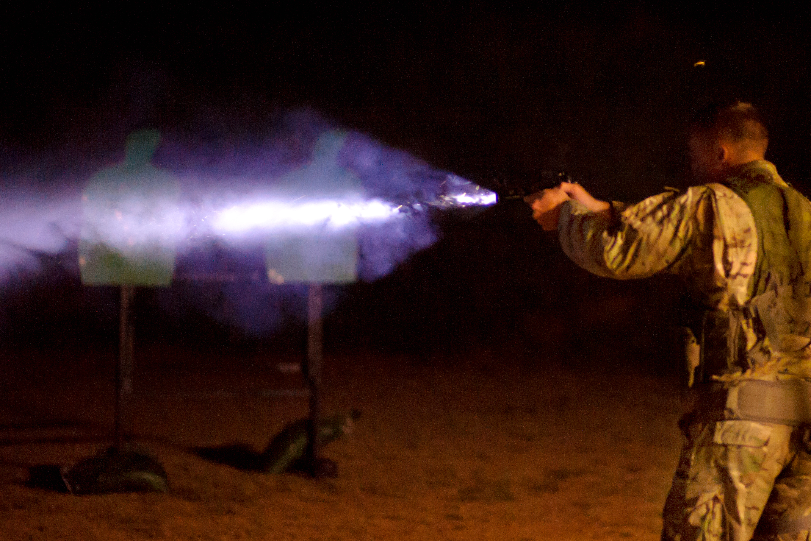 A U.S. Army soldier fires a handgun during the night target competition of the International Sniper Competition on Selby Hill, Fort Benning, Ga., Oct. 12, 2010.